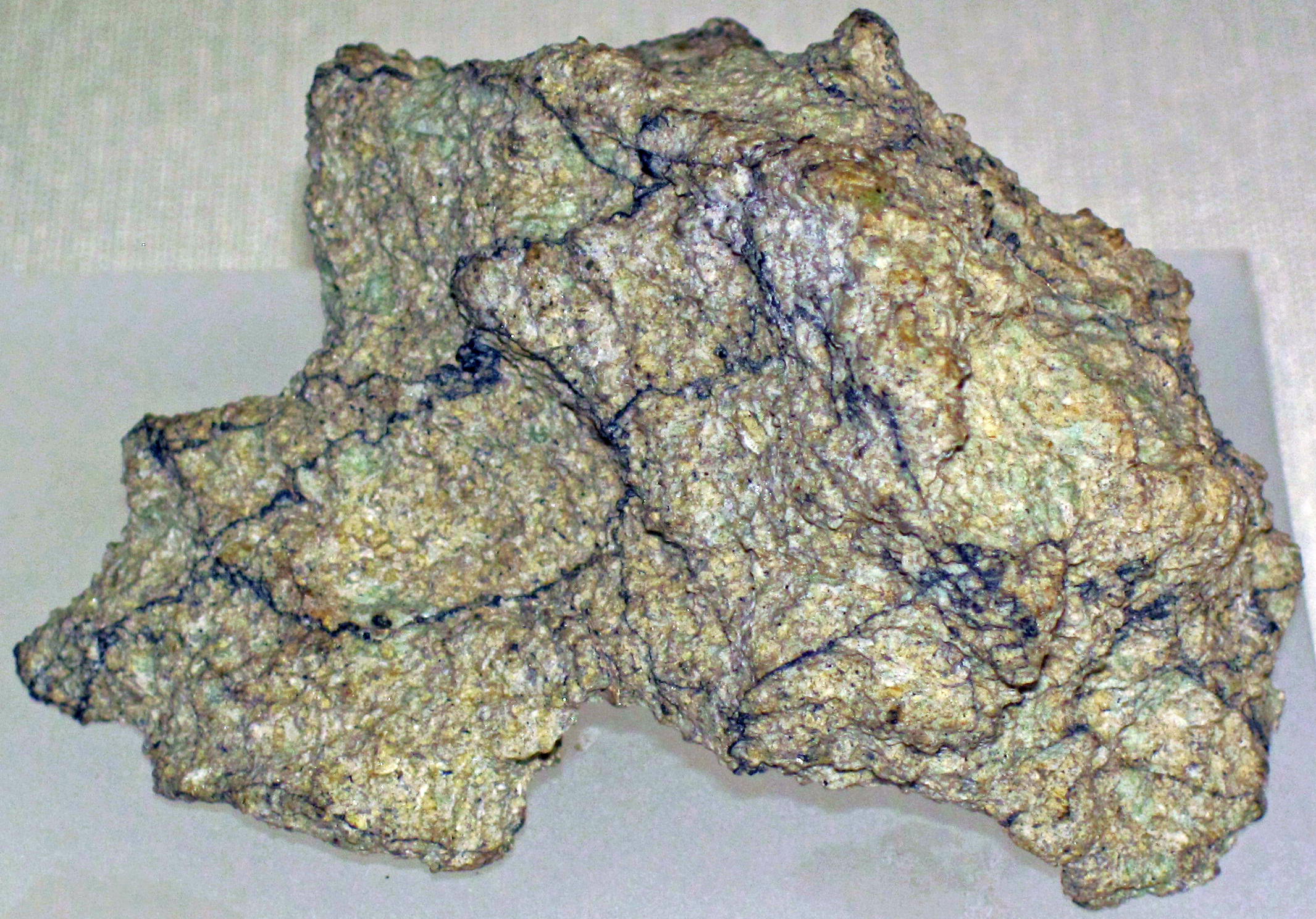 Lunaite - lunar picrite (Northwest Africa 6950 Meteorite), 104 grams. (Maine Mineral & Gem Museum collection, Bethel, Maine, USA) This Moon rock (nicknamed NWA 6950) was found in Algeria in 2011. It has been classified as a cumulate olivine gabbro. Considering it is dominated by greenish-colored olivine, three types of pyroxene, with minor plagioclase feldspar, that is a mis-classification. This is not a gabbro - it's a picrite, formed in an ancient subsurface magma chamber on the Moon. The rock formed by crystal settling from slowly cooling magma. The blackish-colored, irregular lines are impact shock veins. This rock is actually a large clast from a lunar regolith breccia. Other named meteorites that come from the same regolith breccia sample include Anoual, NWA 773, NWA 2700, NWA 2977, NWA 3160, NWA 3170, NWA 3333, NWA 6950, NWA 7007, and NWA 8127. More info. on NWA 6950